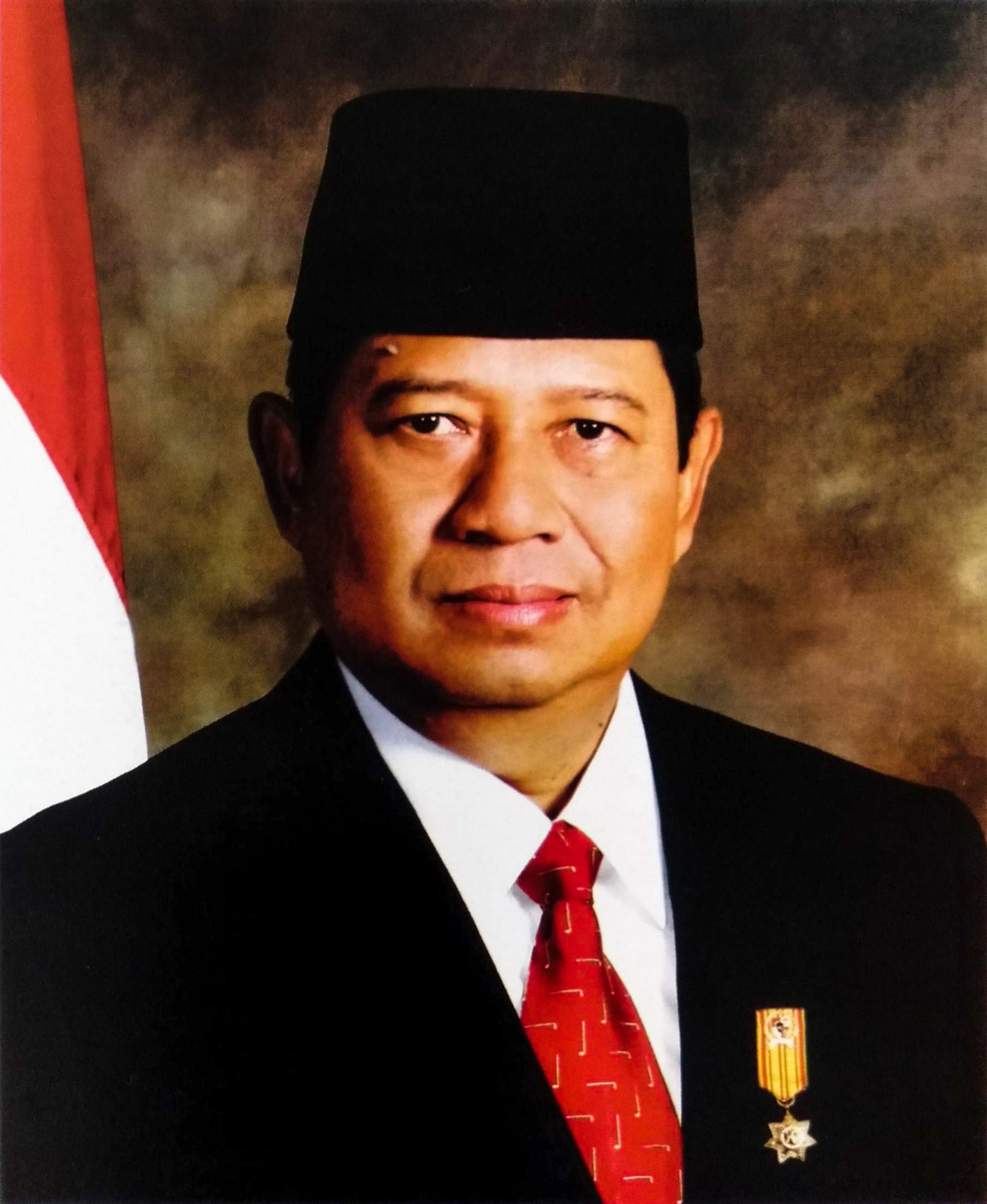 Official presidential portrait of Susilo Bambang Yudhoyono (2004–2009)